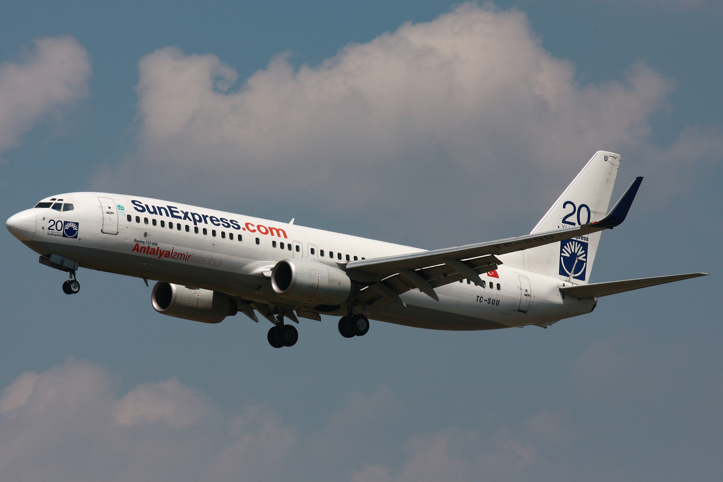 A Boeing 737-800 of SunExpress landing at Frankfurt Airport